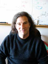 James Sethian picture in his room in the Math Department, University of California, Berkeley, USA. Picture by Adalien Hulmer, May 2004.